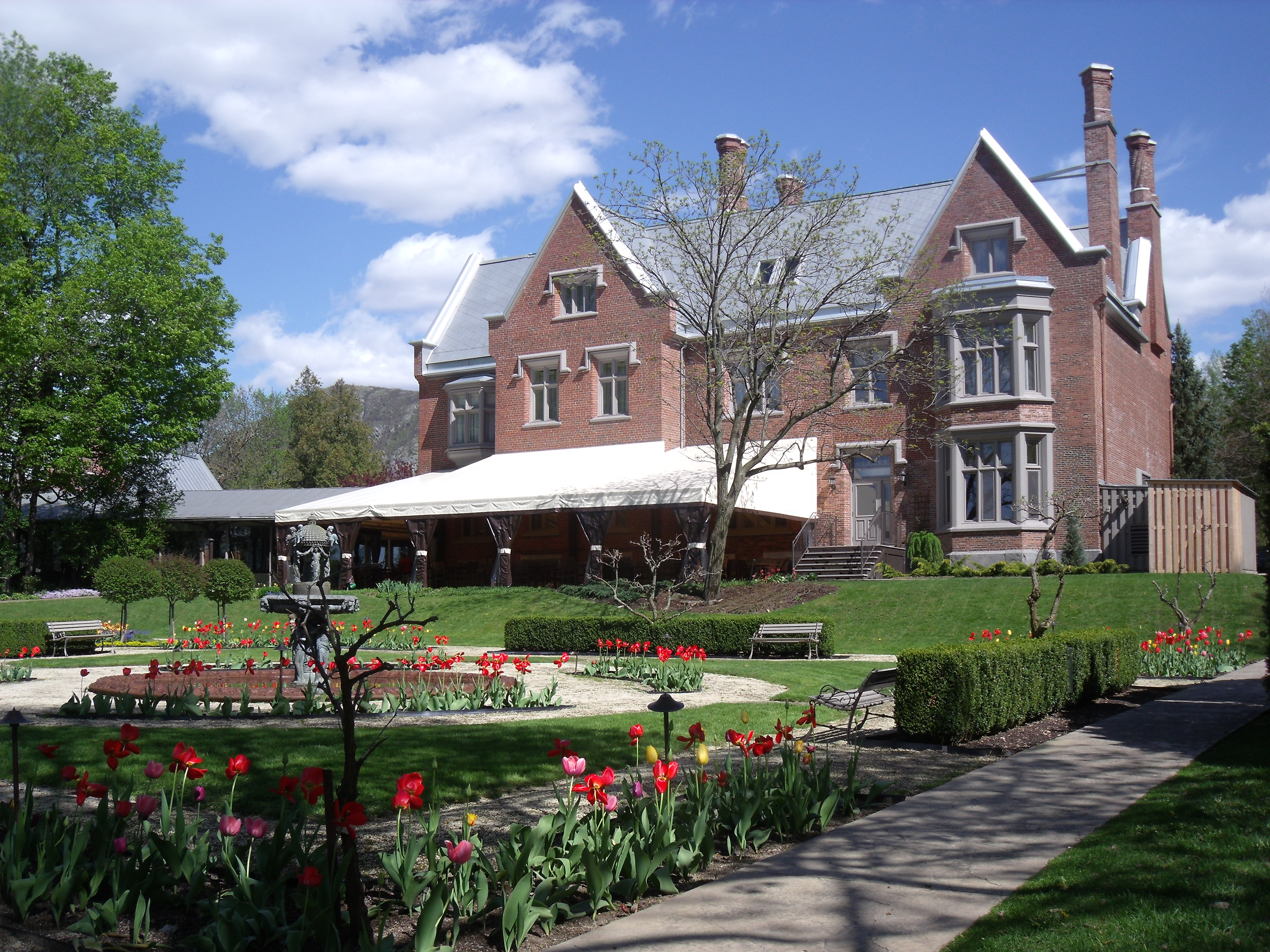 Backyard, Rouville-Campbell Manor.